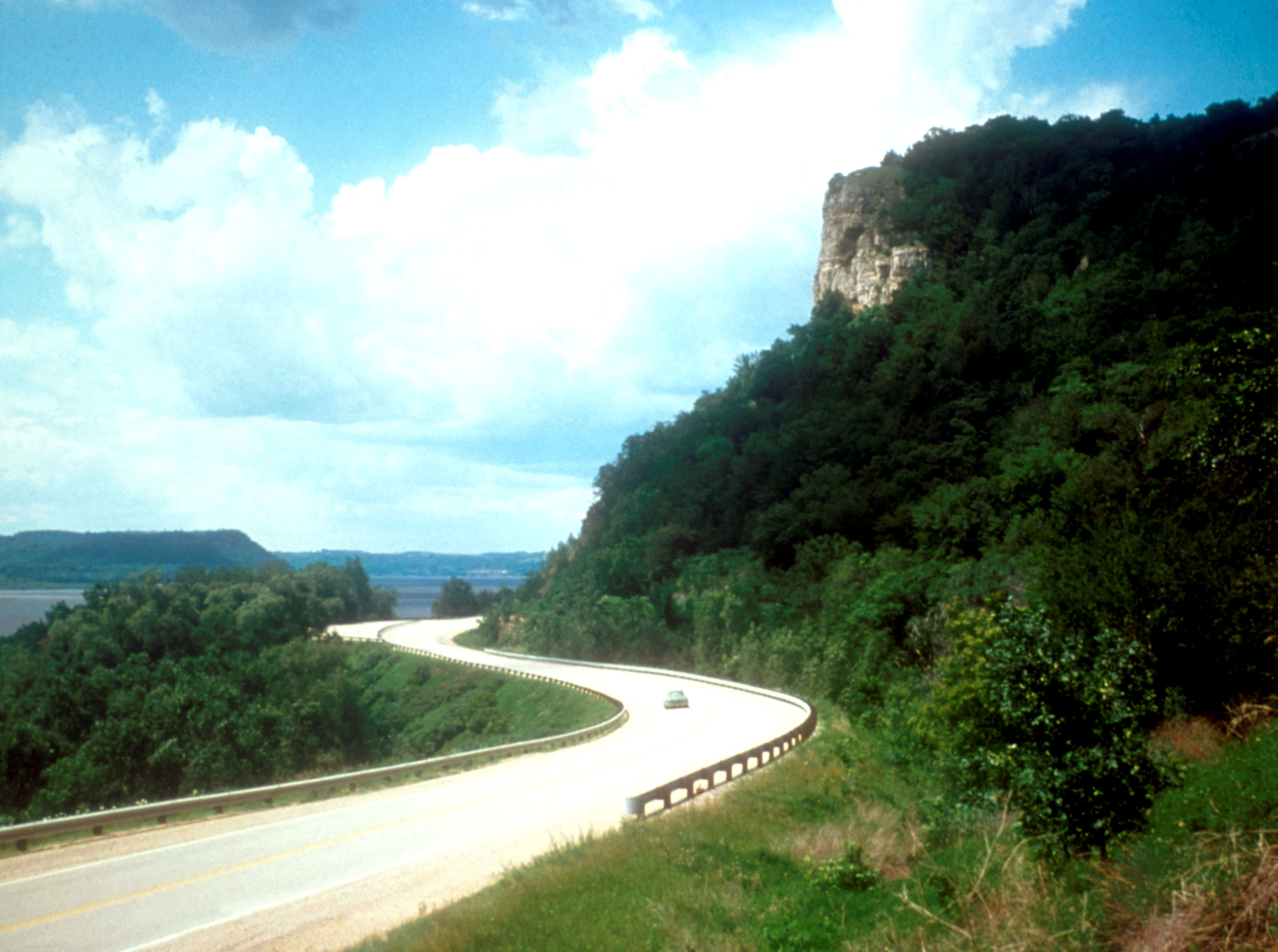 Photo of the Great River Road in Wisconsin.